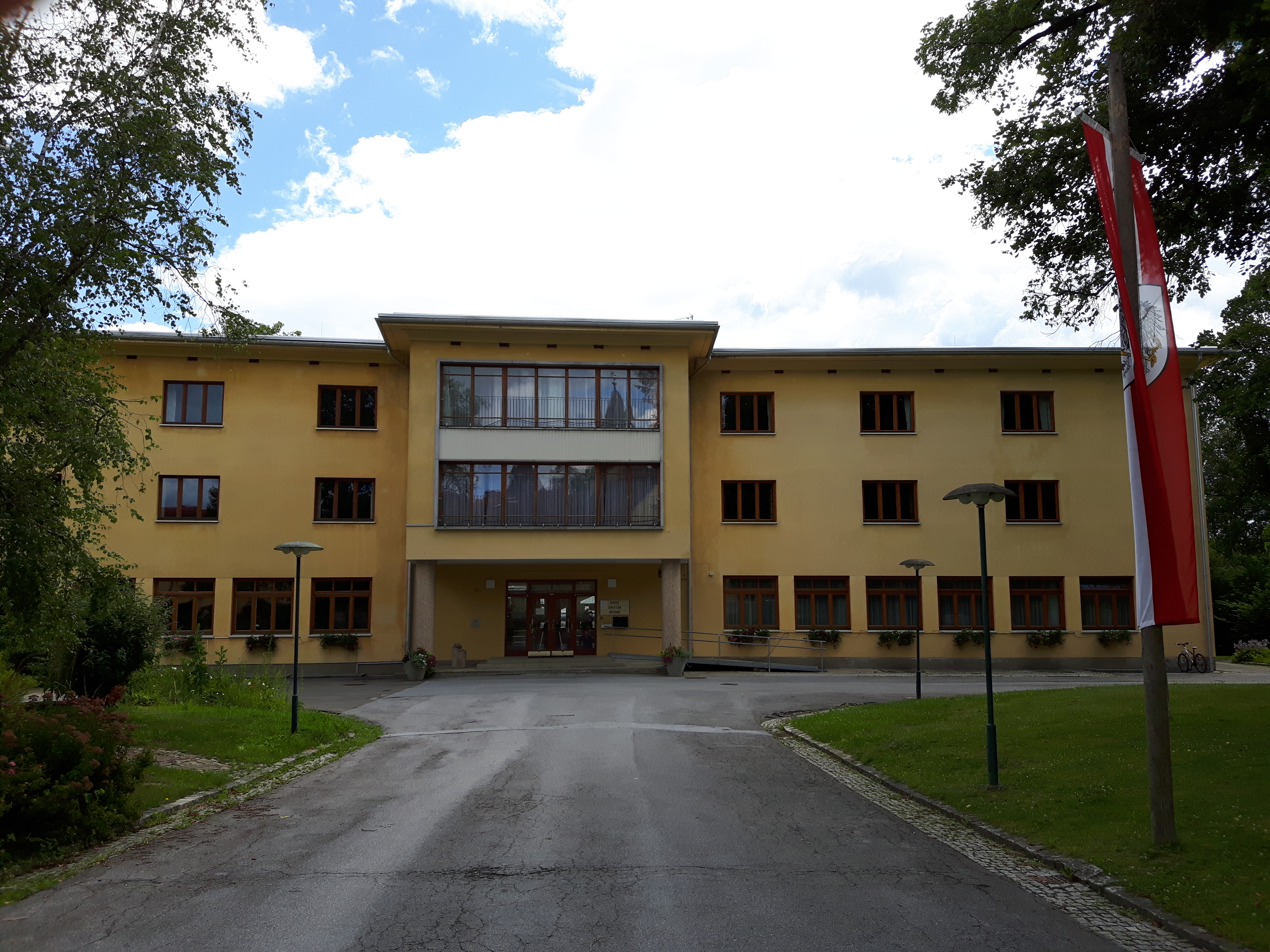 The school building of the agricultural school Grottenhof-Hardt in Thal bei Graz